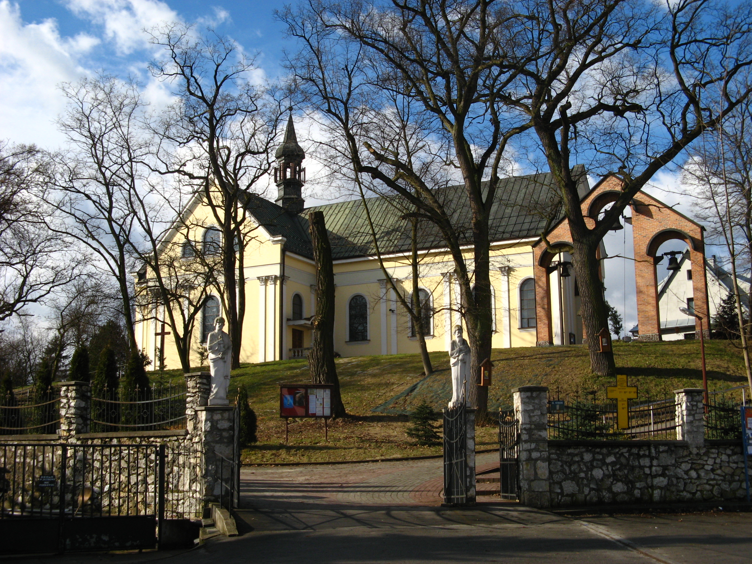 descr